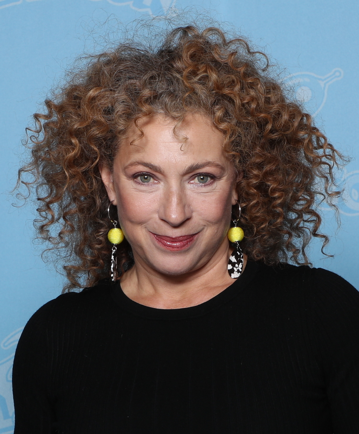 Alex Kingston at GalaxyCon Minneapolis in 2019